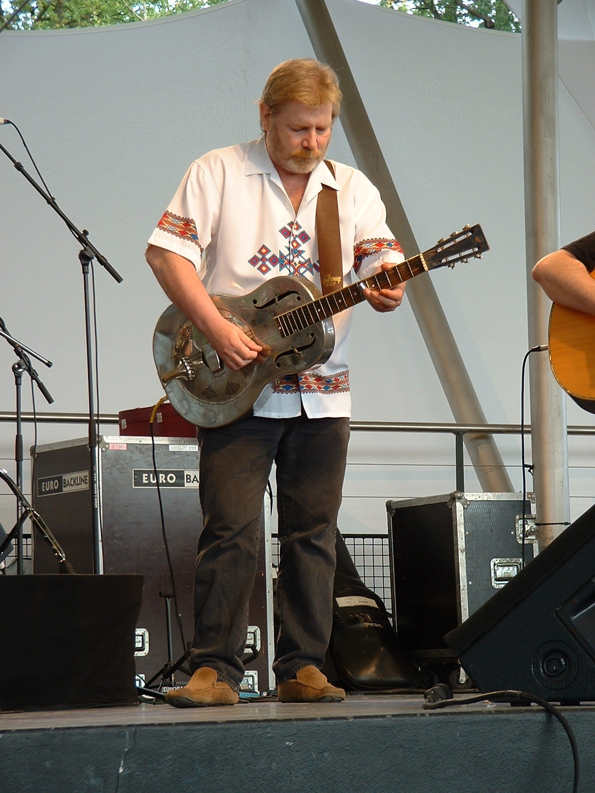 Patrick Verbeke. Concert of Jean-Jacques Milteau[1], a great French bluesman, "King of Harmonica", at the Paris Jazz Festival 2006, Parc Floral de Paris, July 8, 2006. JJM's band: Jean-Jacques Milteau, harmonica, vocals Demi Evans, vocals Manu Galvin, acoustic guitar, vocals Gilles Michel, acoustic bass guitar, vocals Eric Laffont, drums, vocals Guest musicians: Zephyrologie brass band[2] Patrick Verbeke Quintet[3]